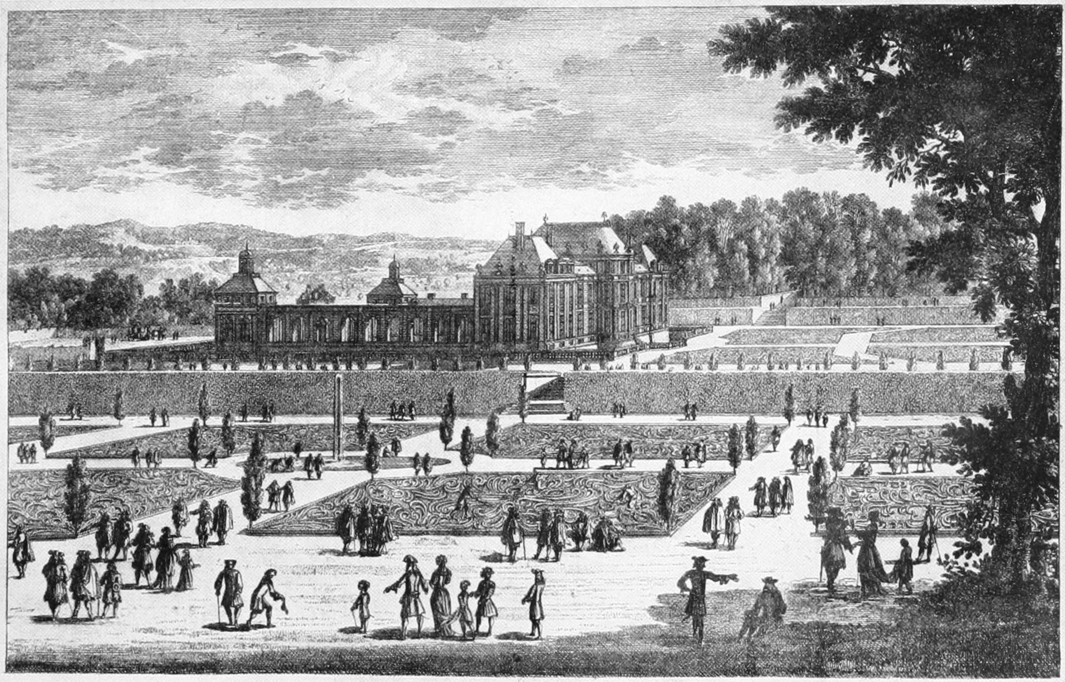 View of the Château du Raincy, building designed by the architect Louis Le Vau, gardens by André Le Nôtre